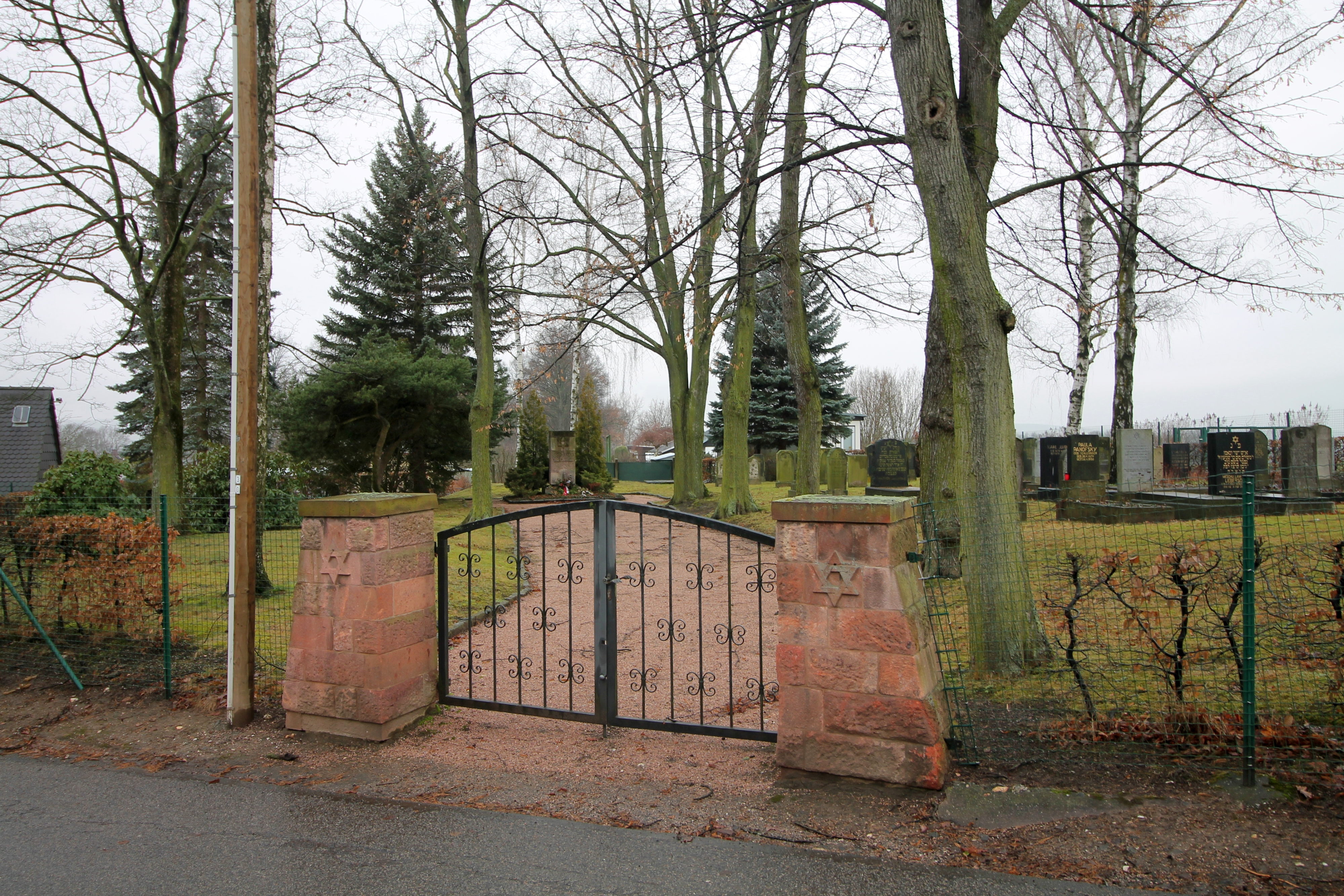 Jewish cemetary Zwickau. Zwickau, Saxony, Germany.